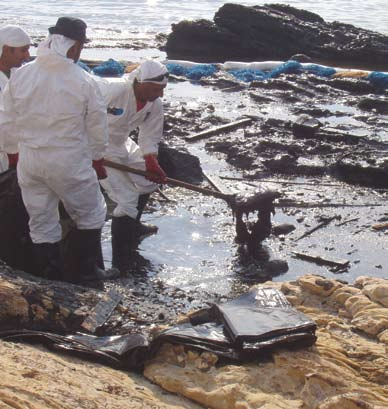 Workers clean up oil spill along Lebanon’s coast in 2006